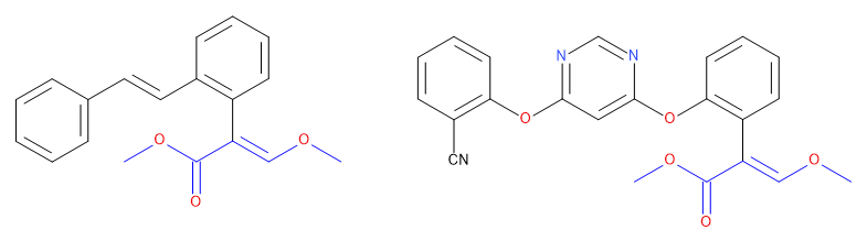 Chemical structures to show the stilbene was the first chemical in the synthetic work that led to azoxystrobin